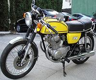 A yellow 1976 CB200